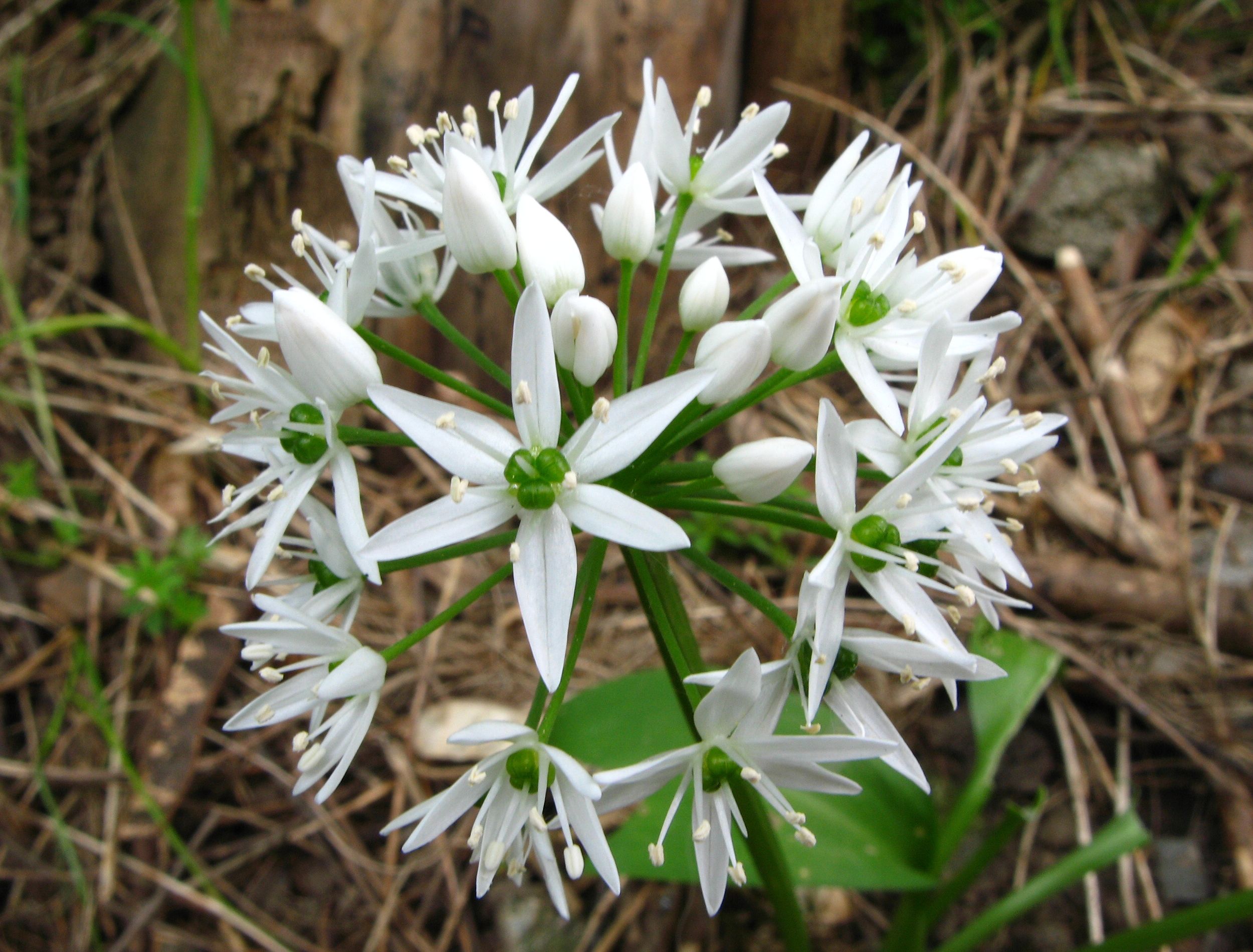 Ramsons, detail screen: blossom